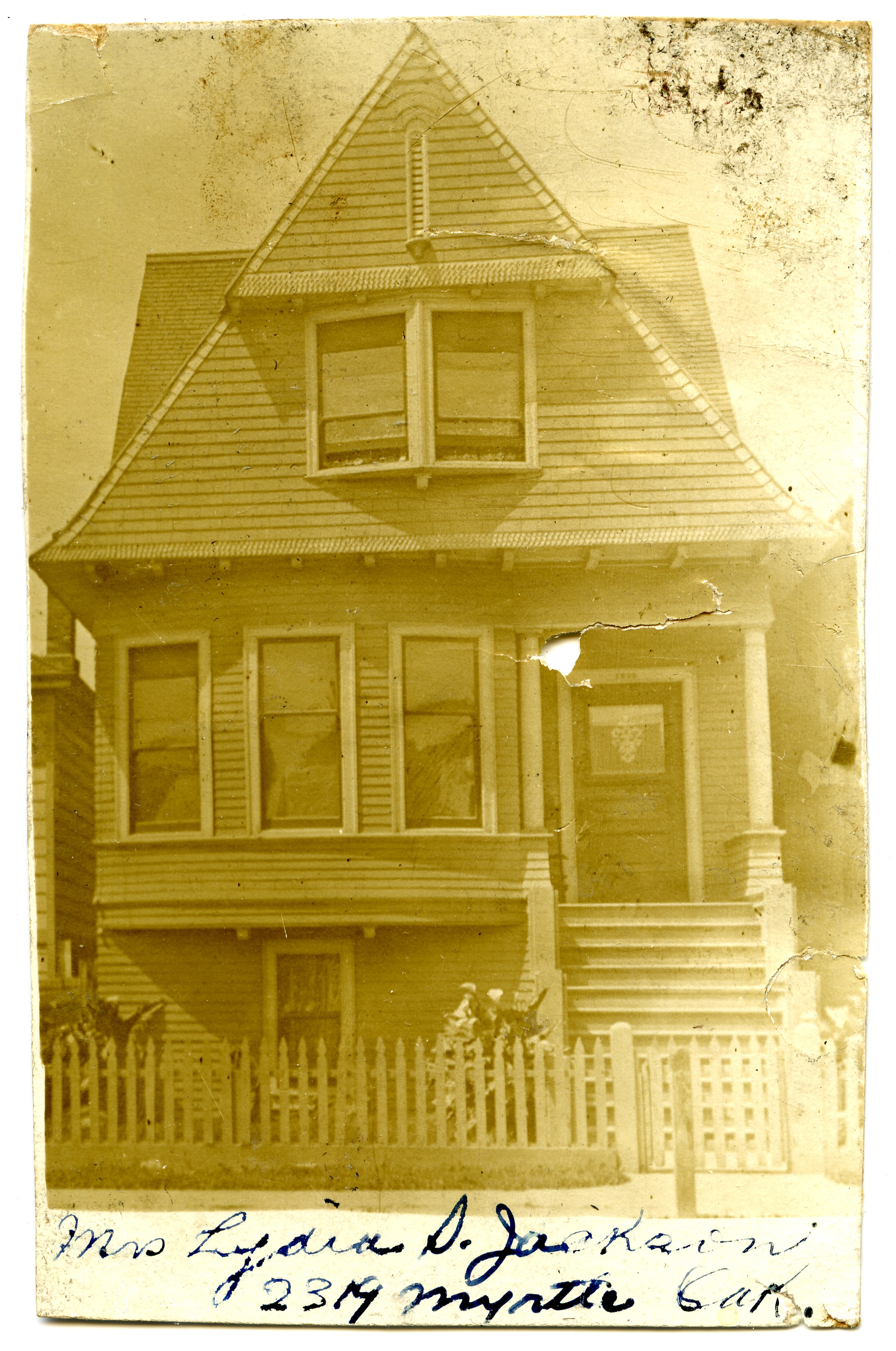 Exterior of Lydia Flood Jackson’s house at 2319 Myrtle St., Oakland, California, circa 1900s.